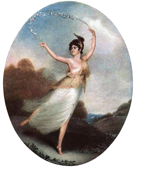 French dancer, Mademoiselle Parisot, in the provocative type of costume she was known for in her performances in London in the 1790s and 1800s.